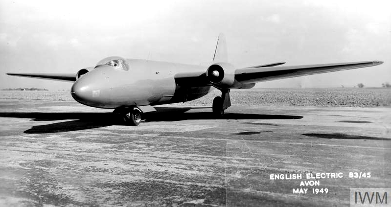 The first English Electric Canberra B3/45 prototype at the time of the maiden flight (VN799).